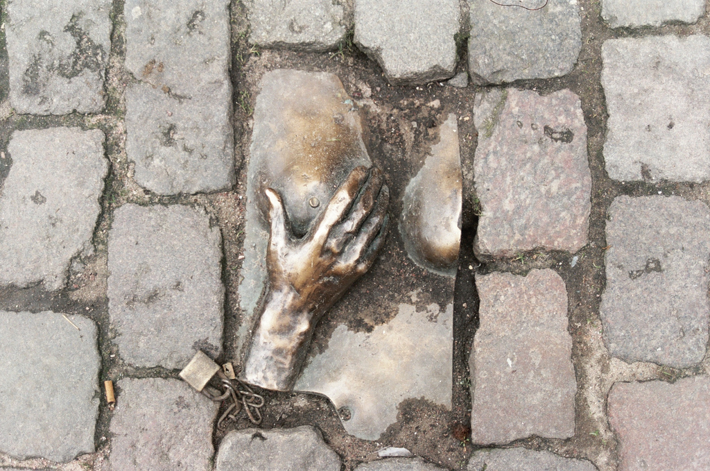 Bronze relief in the cobblestone of Oudekerksplein near the Oude Kerk in Amsterdam's red-light district De Wallen. Created and installed by an anonymous artist who has left several other bronze statues all over Amsterdam.[1]